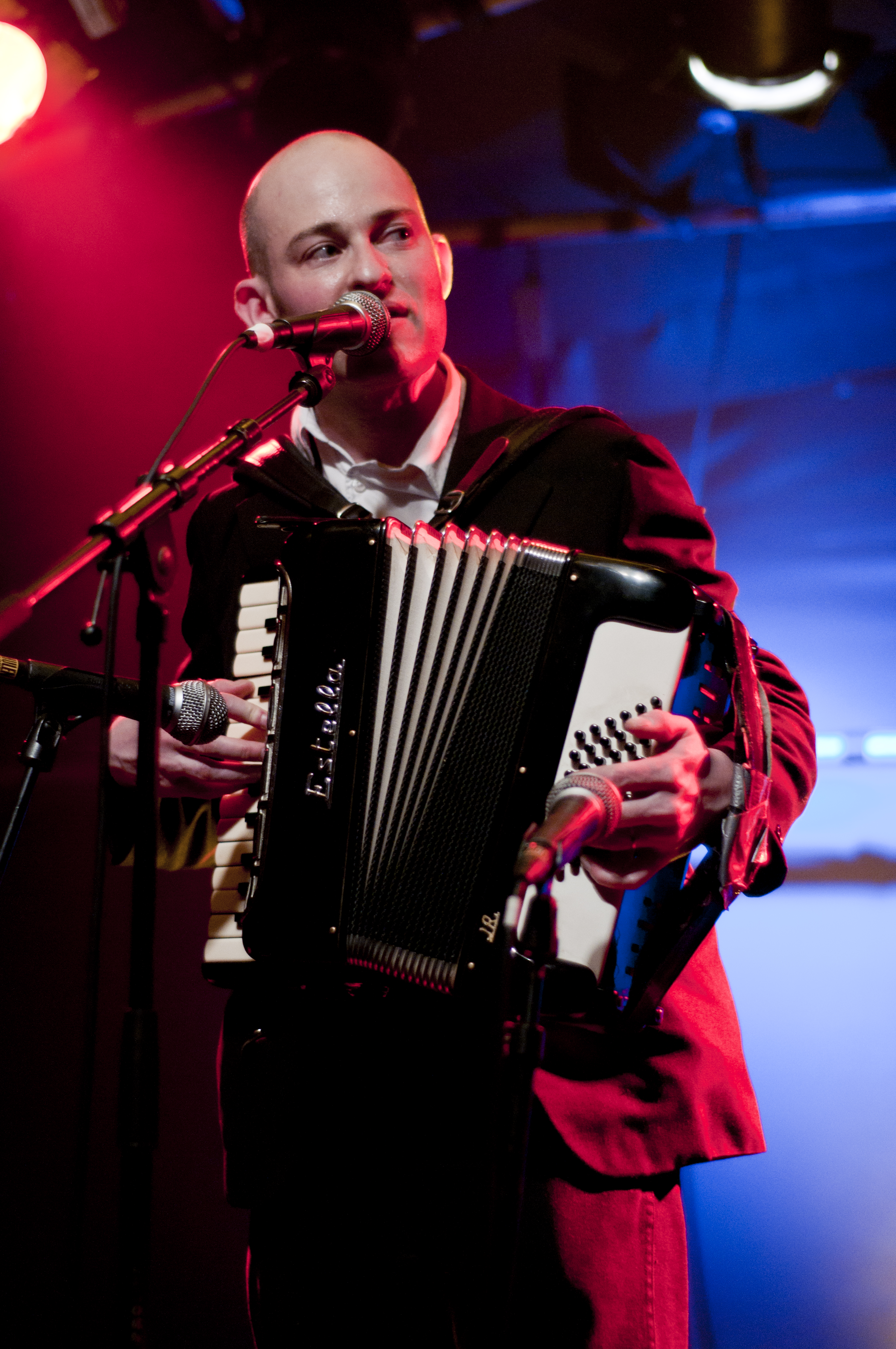 Geoff Berner playing at Hulen in Bergen, Norway, April 7th 2011Norsk bokmål: Geoff Berner spiller på Hulen i Bergen, 7. april 2011